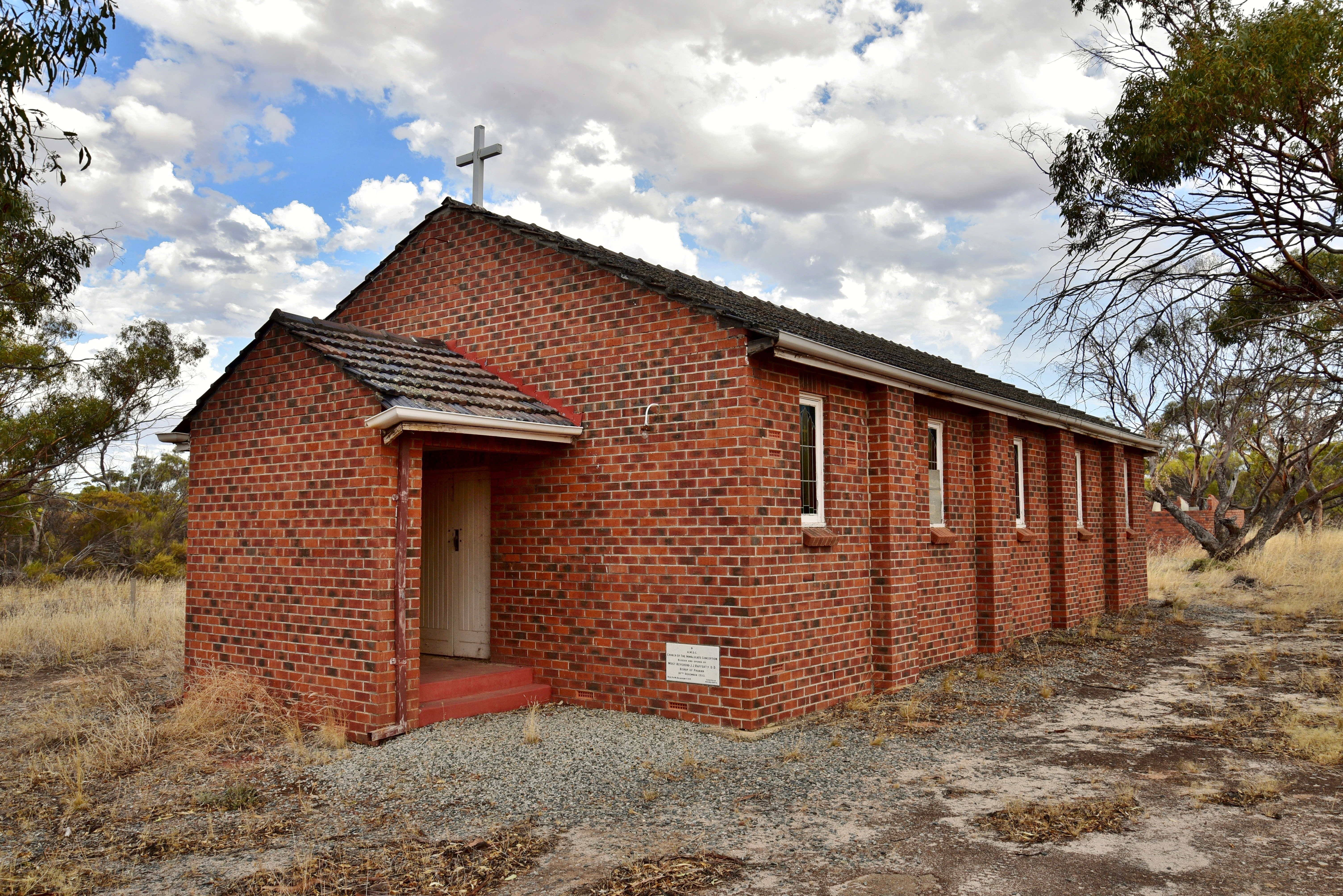 View of the Church of the Immaculate Conception, Kwolyin, Western Australia